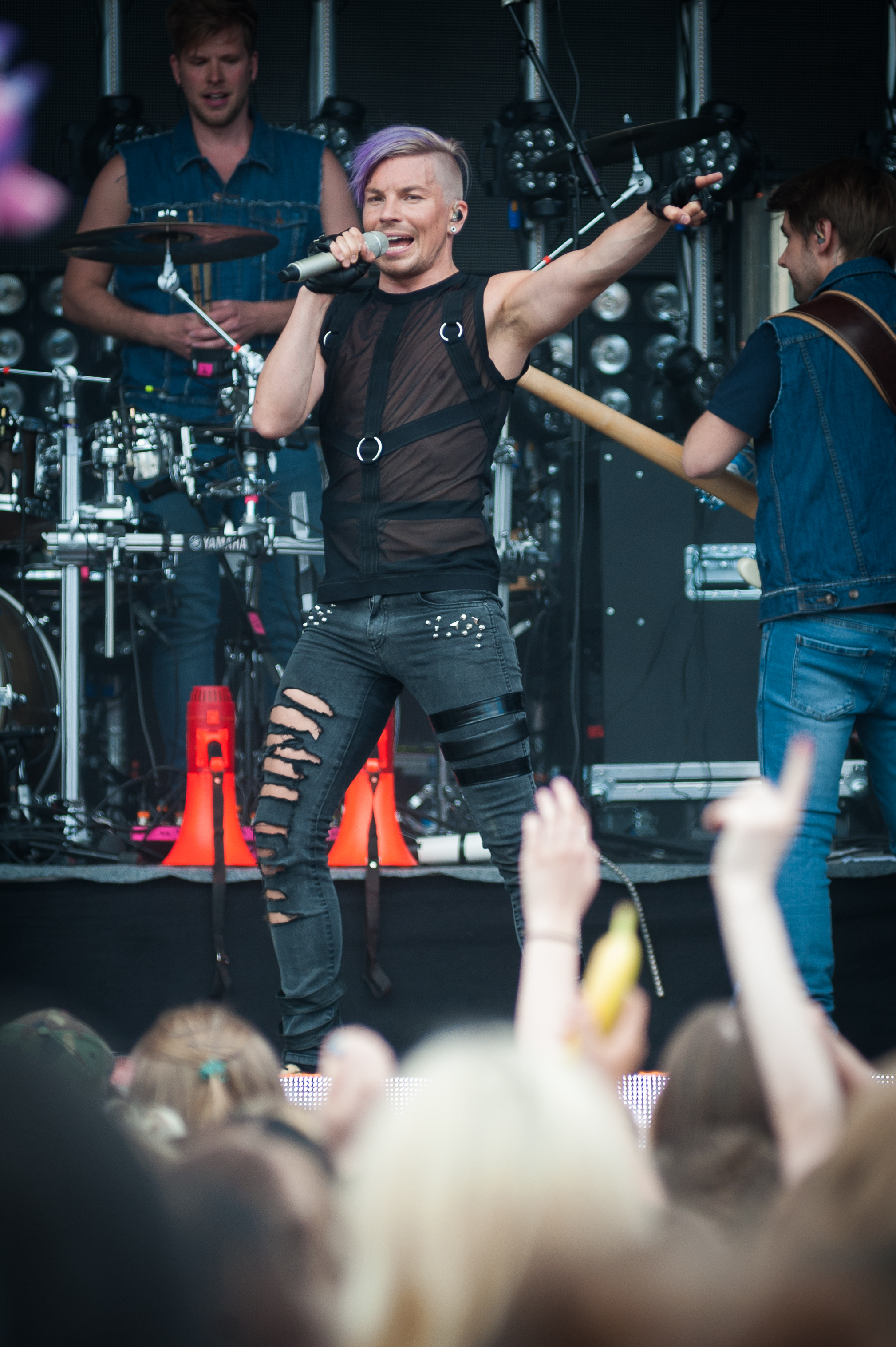 Finnish vocalist Antti Tuisku performing at YleXPop event in Lahti, Finland on the 4th of June, 2016.